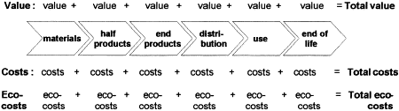 EVR Value costs ecocosts chain